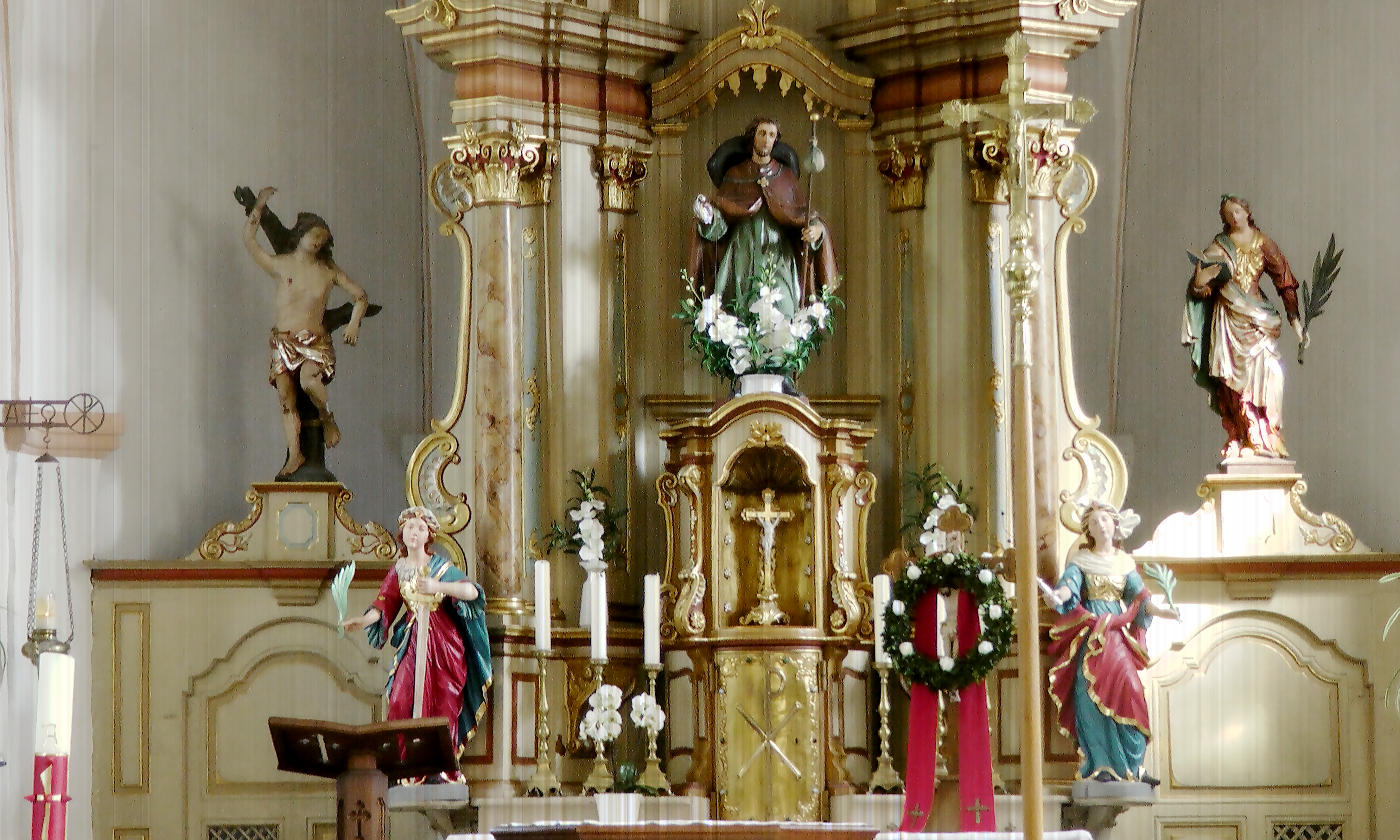 St. James Fisch (Saargau), Germany, baroque altar